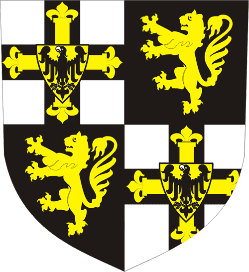 Teutonic Order - Coat of Arms of the Grandmaster